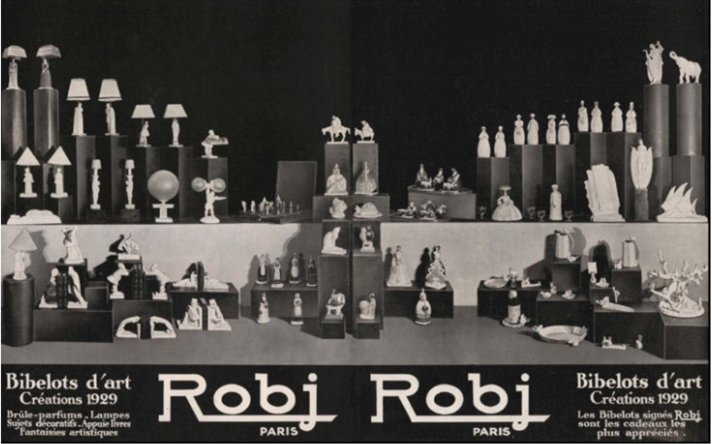 Advertisement of a selection of Art Deco ceramics from Robj.